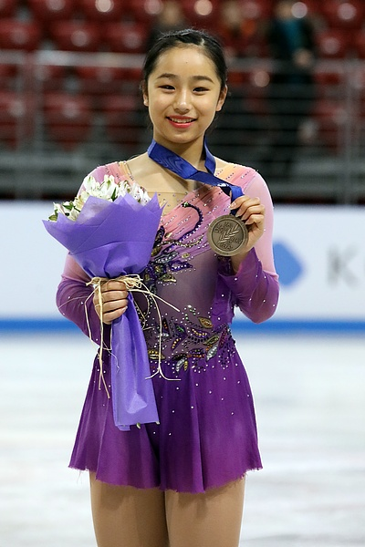 Photos – Junior World Championships 2018 – Ladies (Medalists)